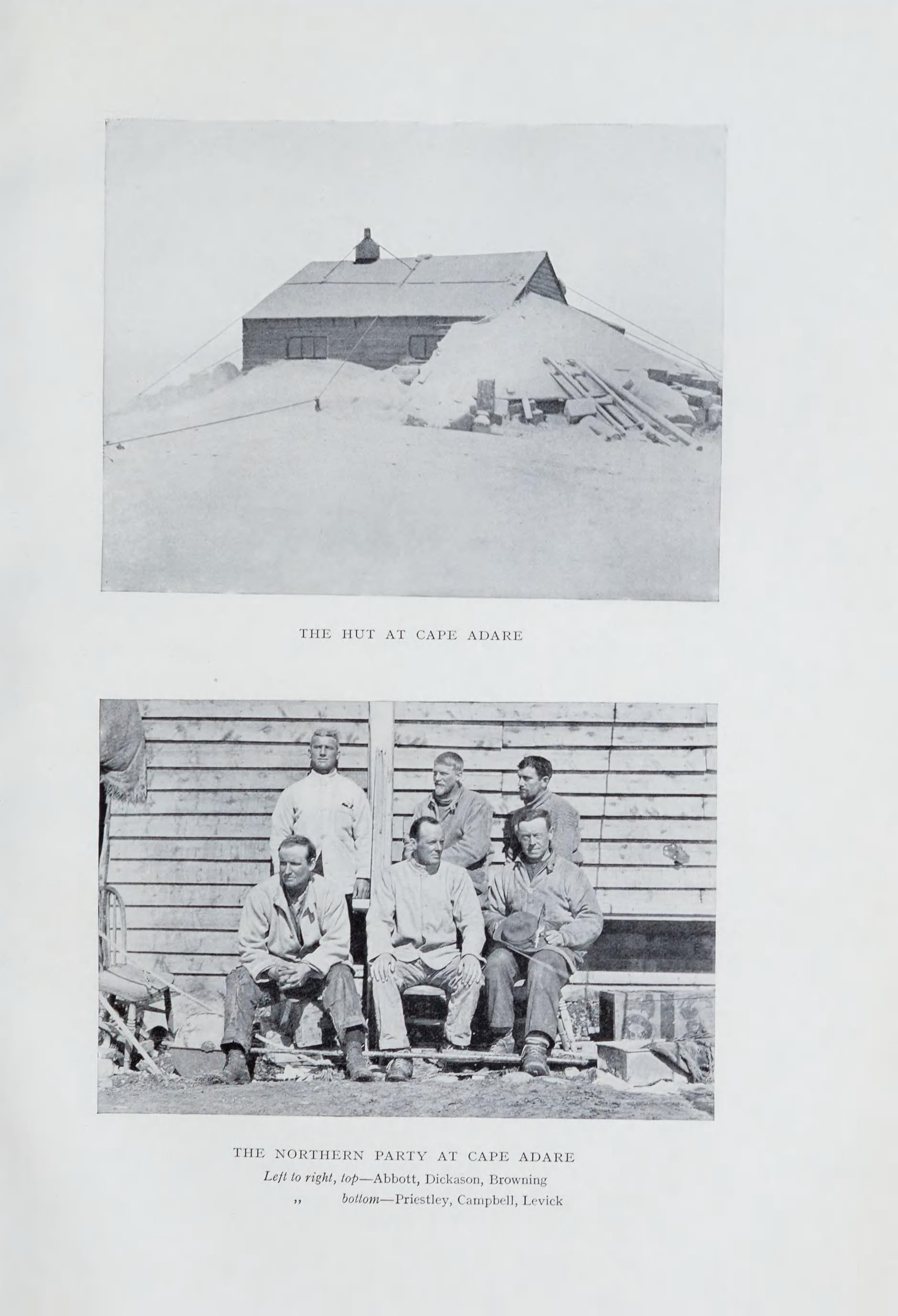 Scott's last expedition /